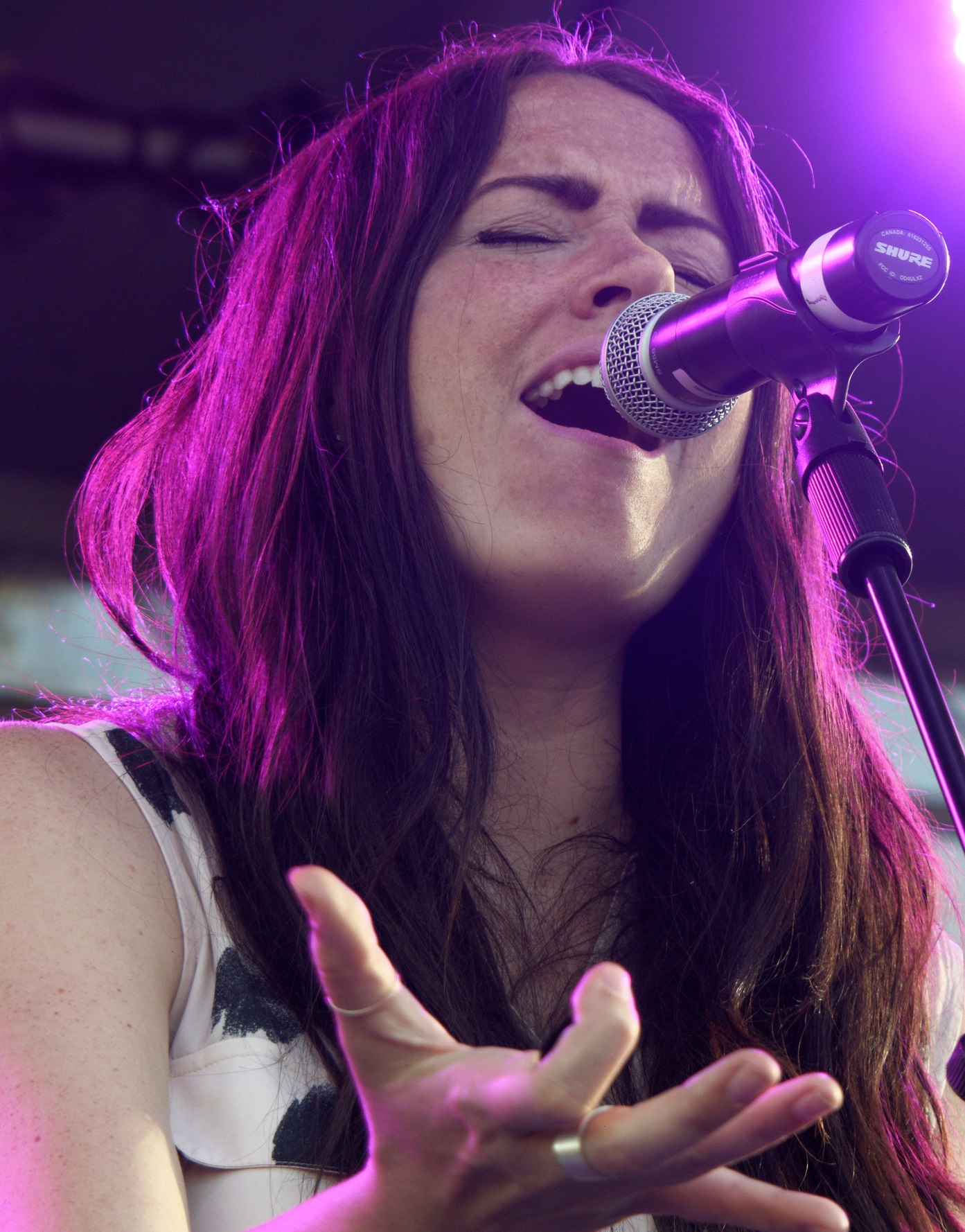 Lindsay McCaul performing live on the Wave Stage at Fish Fest, at Verizon Wireless Amphitheatre in Irvine California on Saturday June 21st, 2014. Fish Fest is an annual Christian live music festival put on by southern California radio station 95.9 FM "The Fish".